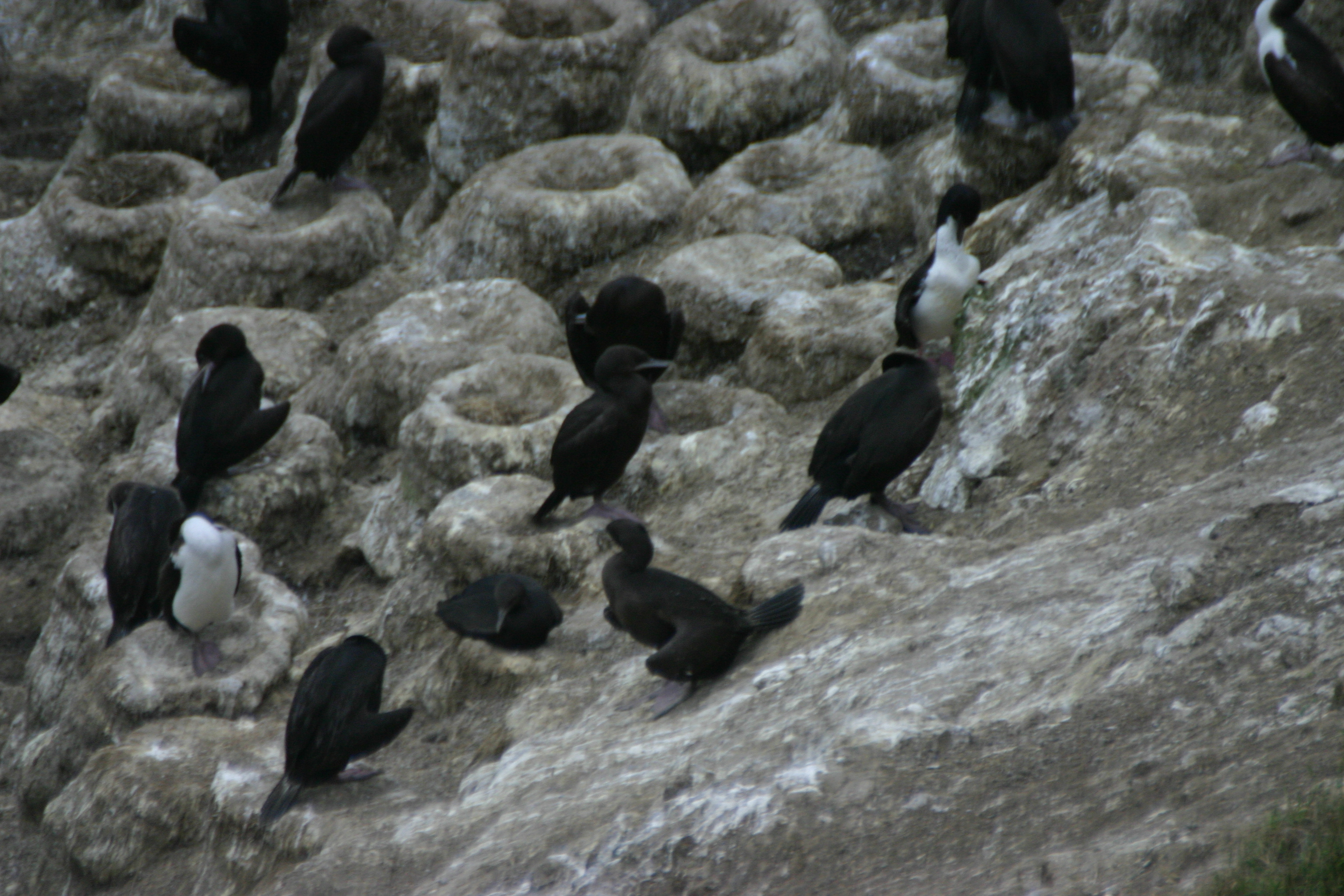 Population of Stewart Island Shags Leucocarbo chalconotus nesting on Taiaroa Head, Otago Peninsula, New Zealand. By Brian Gratwicke.